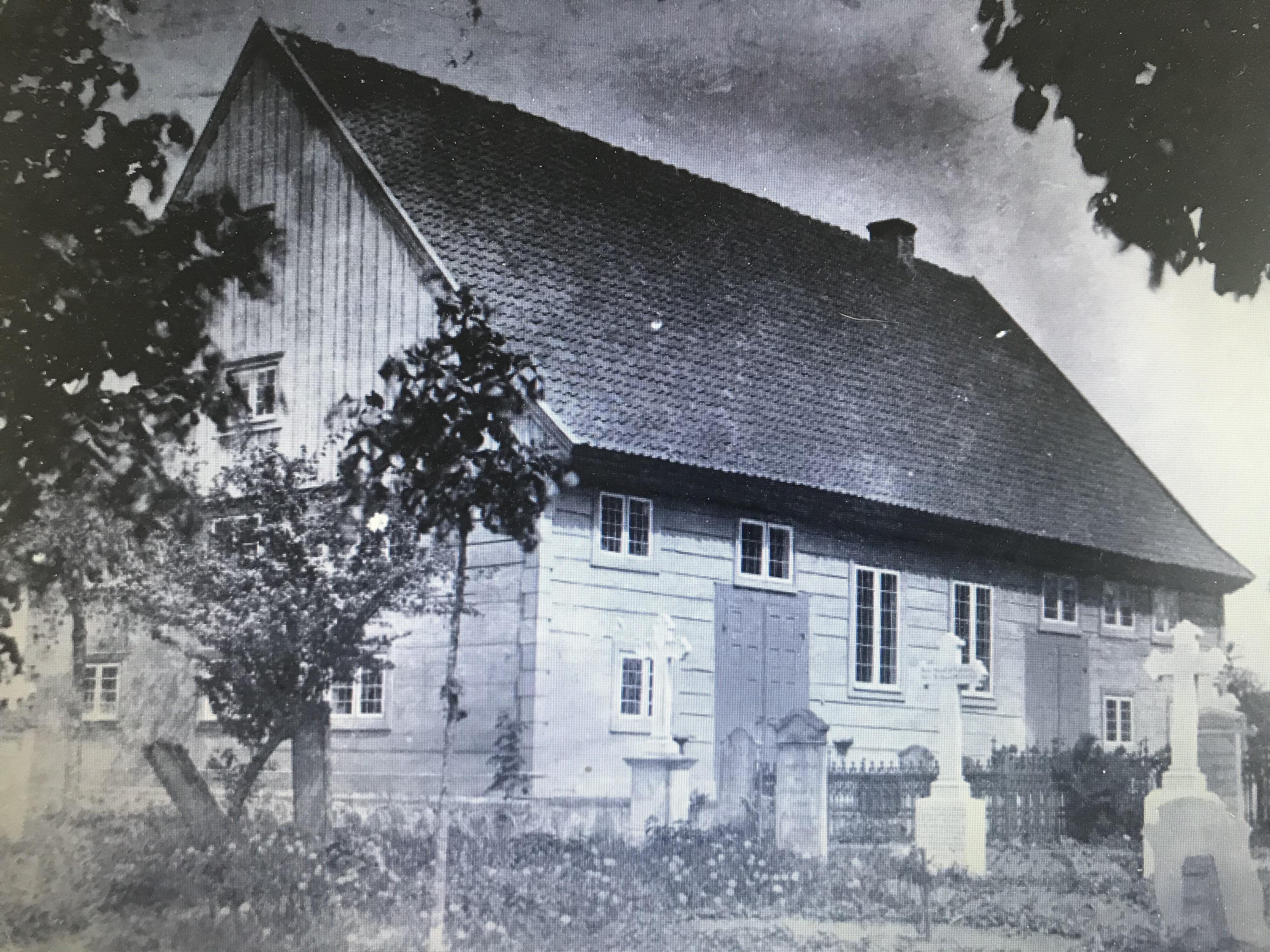 Mennonite house of prayer in Niedźwiedziówka (Bärwalde) in today's Poland. Built in 1768, destroyed by fire in 1990. Original picture was taken in the mid-war period